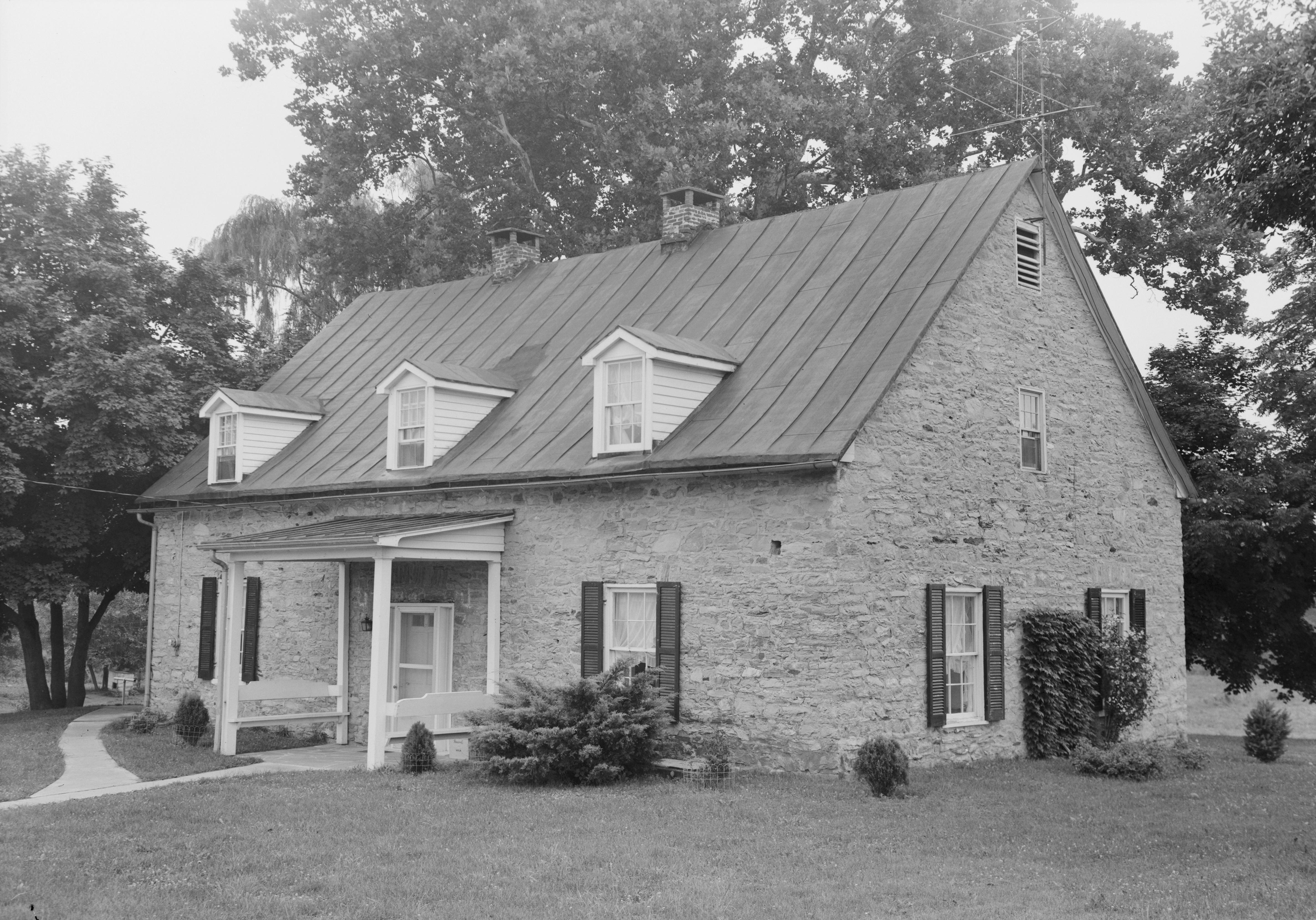 Rear and side of the Martin Schultz House, located at 155 Emig Street in Hallam, Pennsylvania, United States. Built in 1736, it is listed on the National Register of Historic Places.